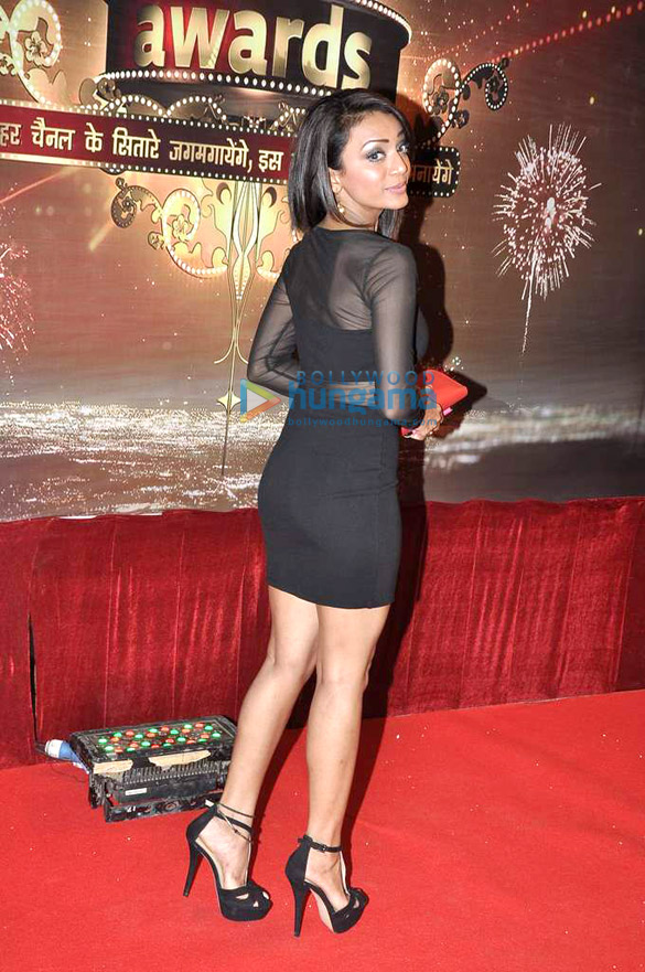 Singh at the ITA awards red carpet